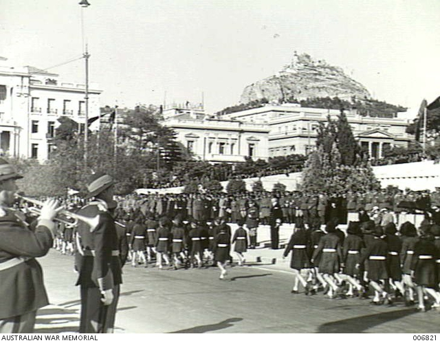 SHOT TAKEN DURING A PARADE OF THE GREEK YOUTH MOVEMENT ON THE OCCASION OF THE CELEBRATION OF INDEPENDENCE DAY. KING GEORGE OF GREECE IS SEEN REVIEWING THE YOUTHFUL MARCHERS WHILE BEHIND HIM STAND THE LEADING OFFICERS OF THE GREEK ARMY.